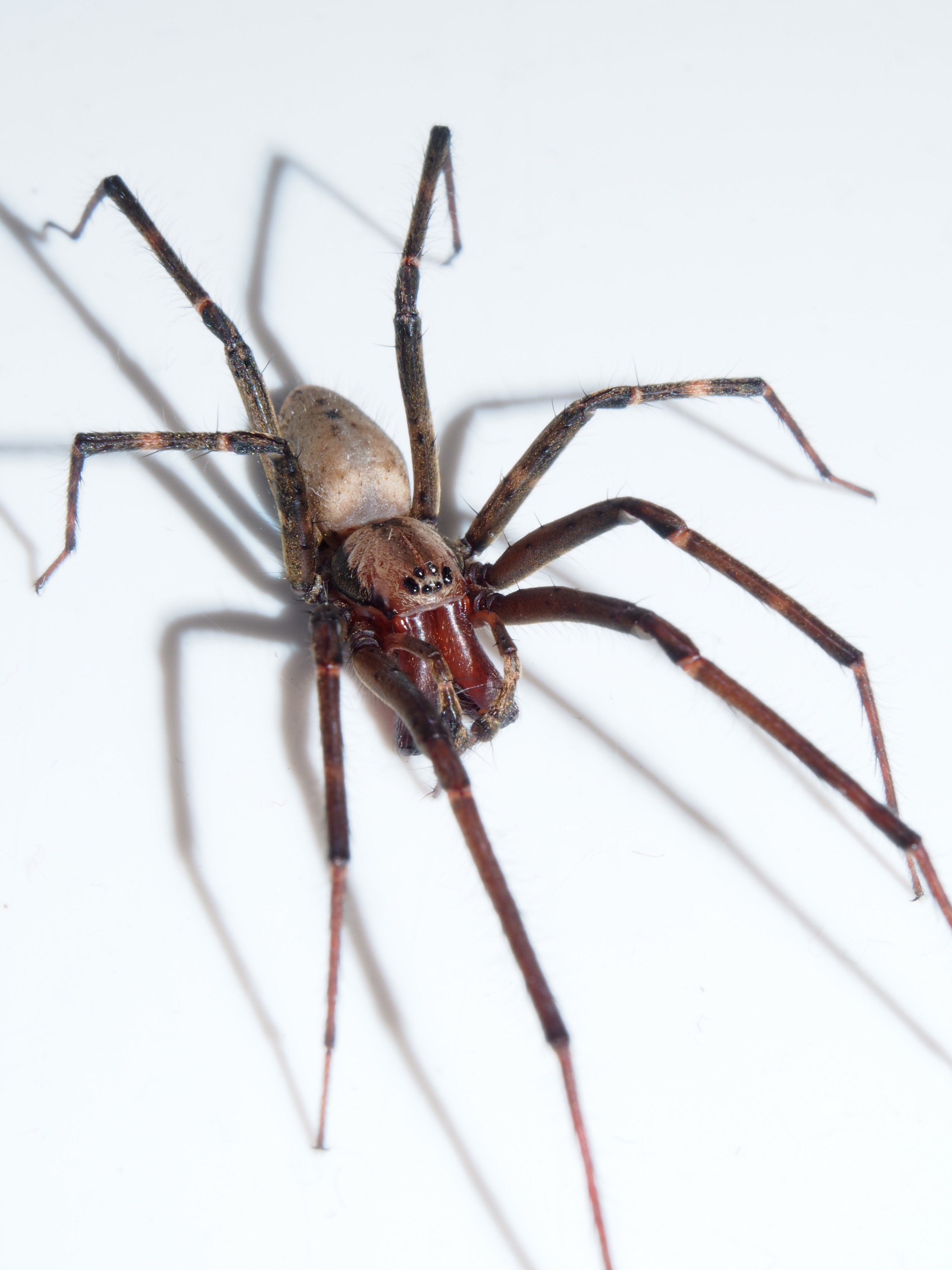 Photo of NZ based Cambridgea foliata spider Cambridgea foliata